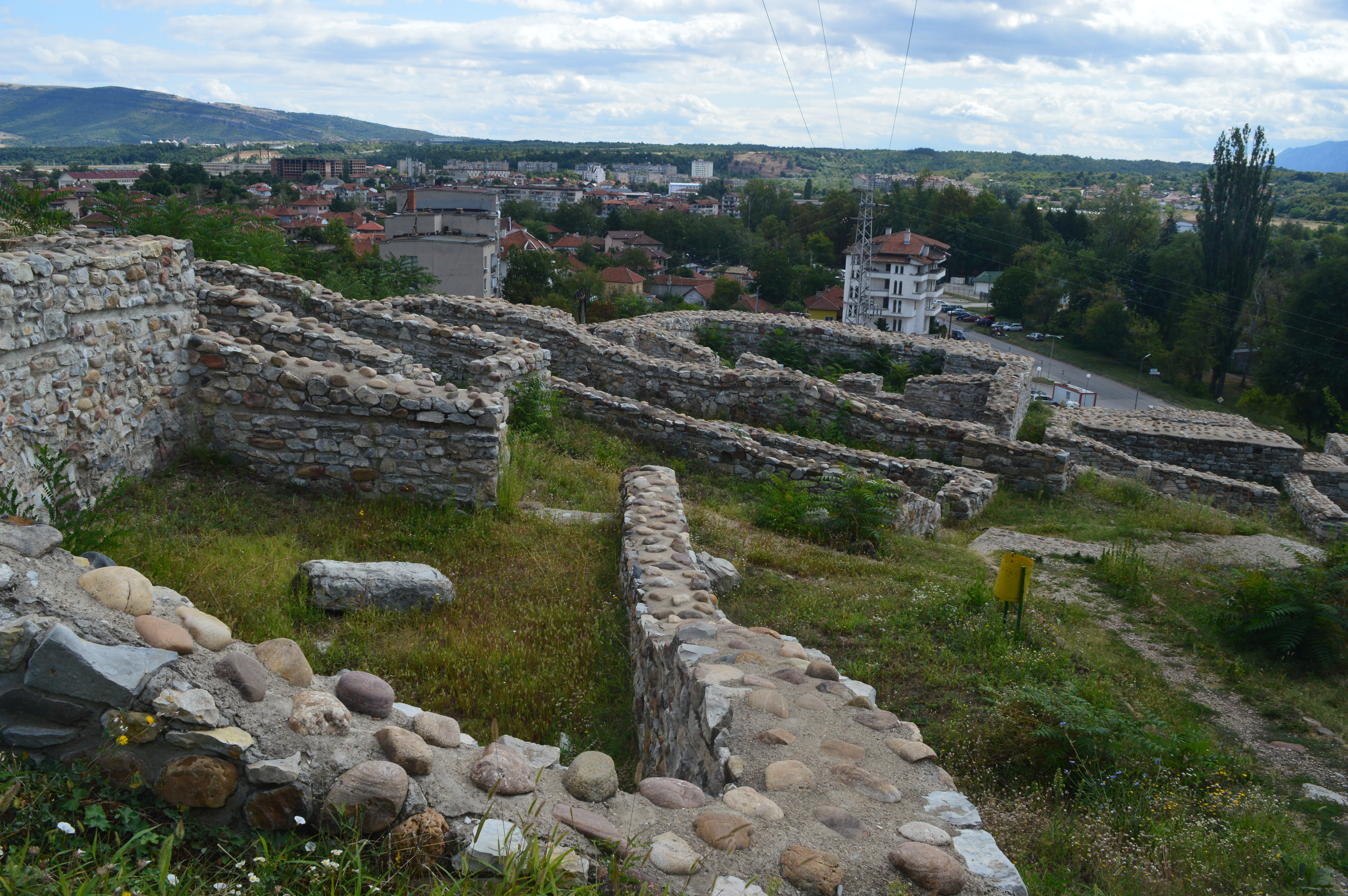 Ancient city Castra ad Montanesium near modern Montana